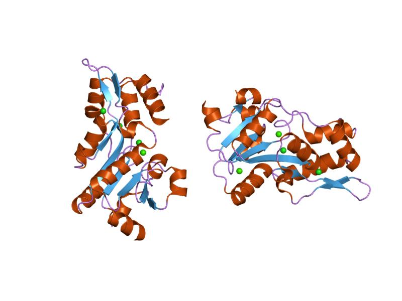 Cartoon representation of the molecular structure of protein registered with 1nnl code.